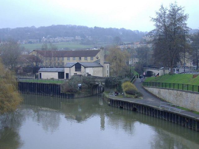 Canal junction The Kennet and Avon canal joins the River Avon, under the small bridge in the centre of this shot.